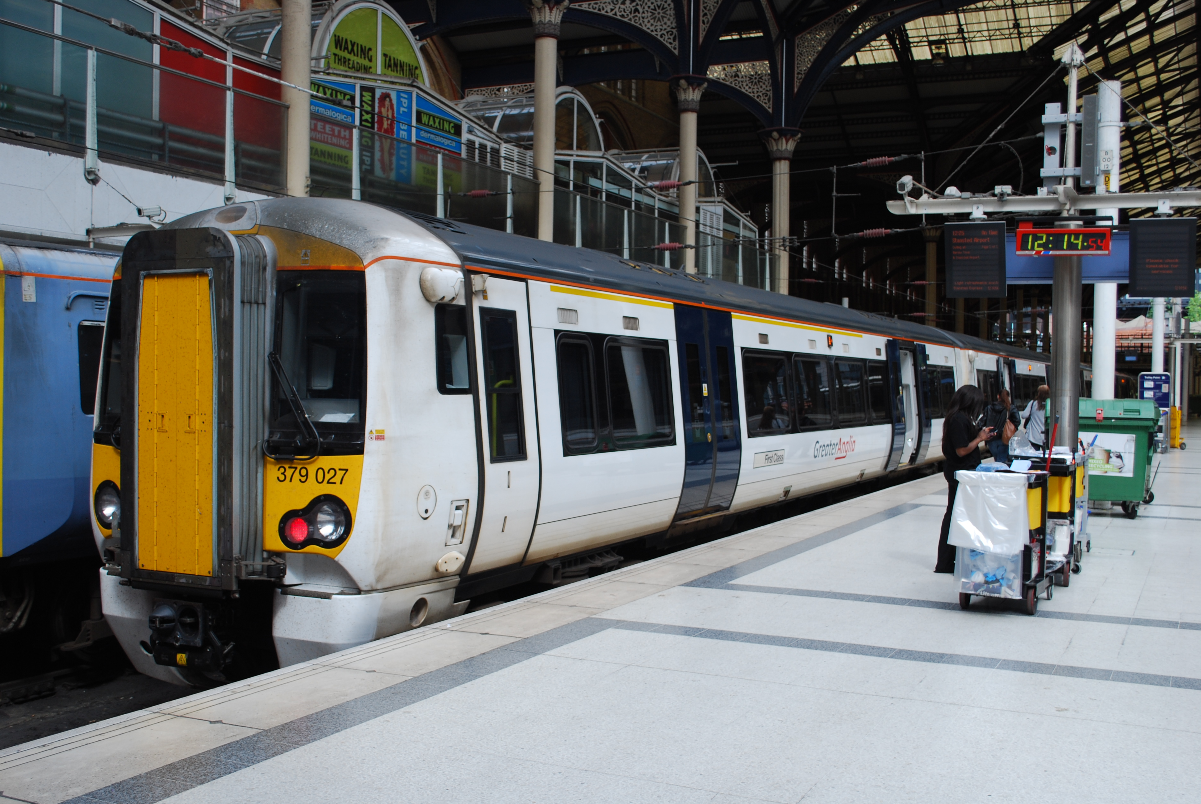 Bombardier (Derby) Class 379 "Electrostar" 25k V ac overhead 4-car emu No.379 027 of Greater East Anglia on a Stansted Express service at Liverpool St, 08/11.